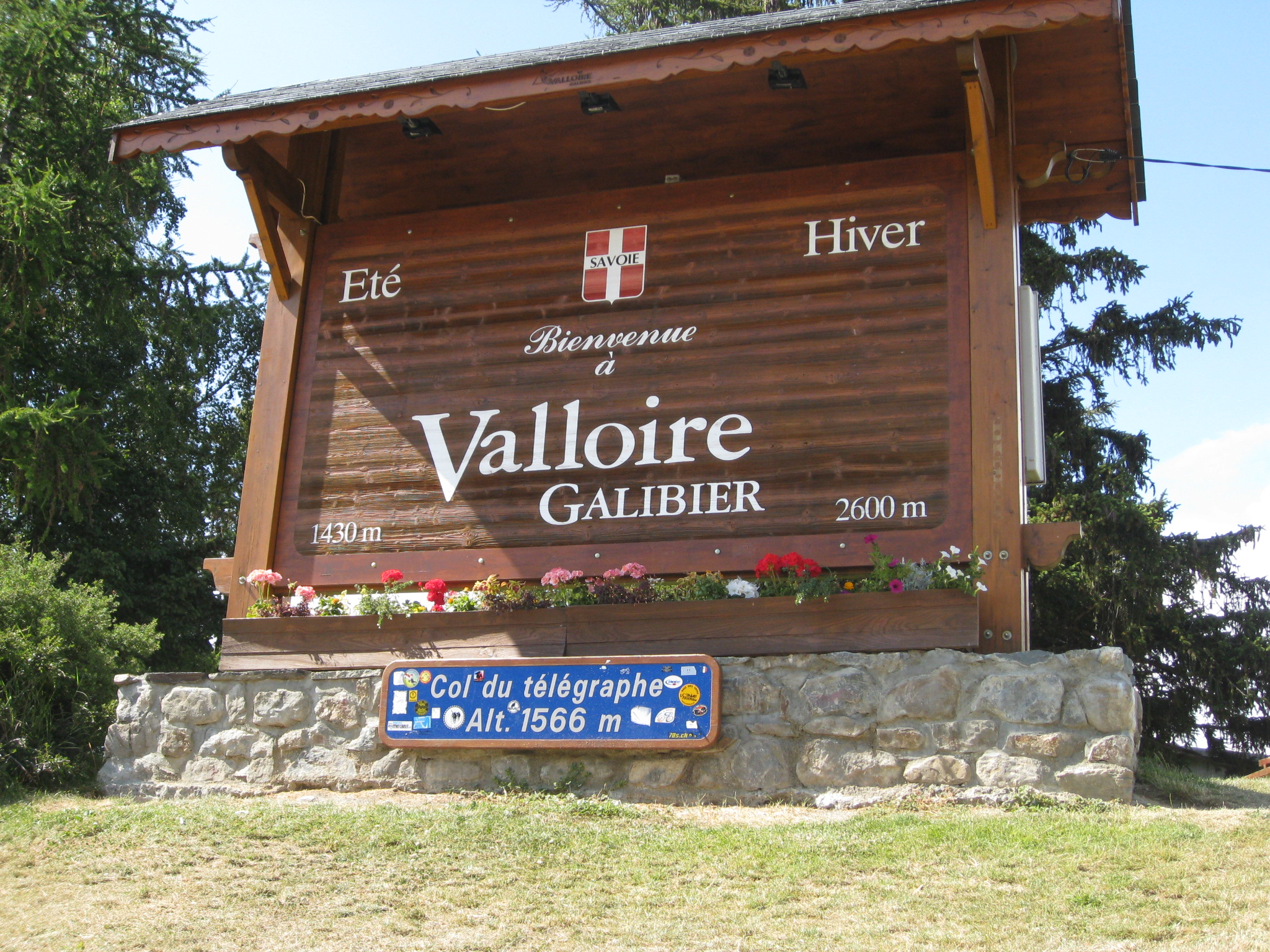 Sign at the top of the Col du Télégraphe, Valloire. Photo by Tim Bekaert